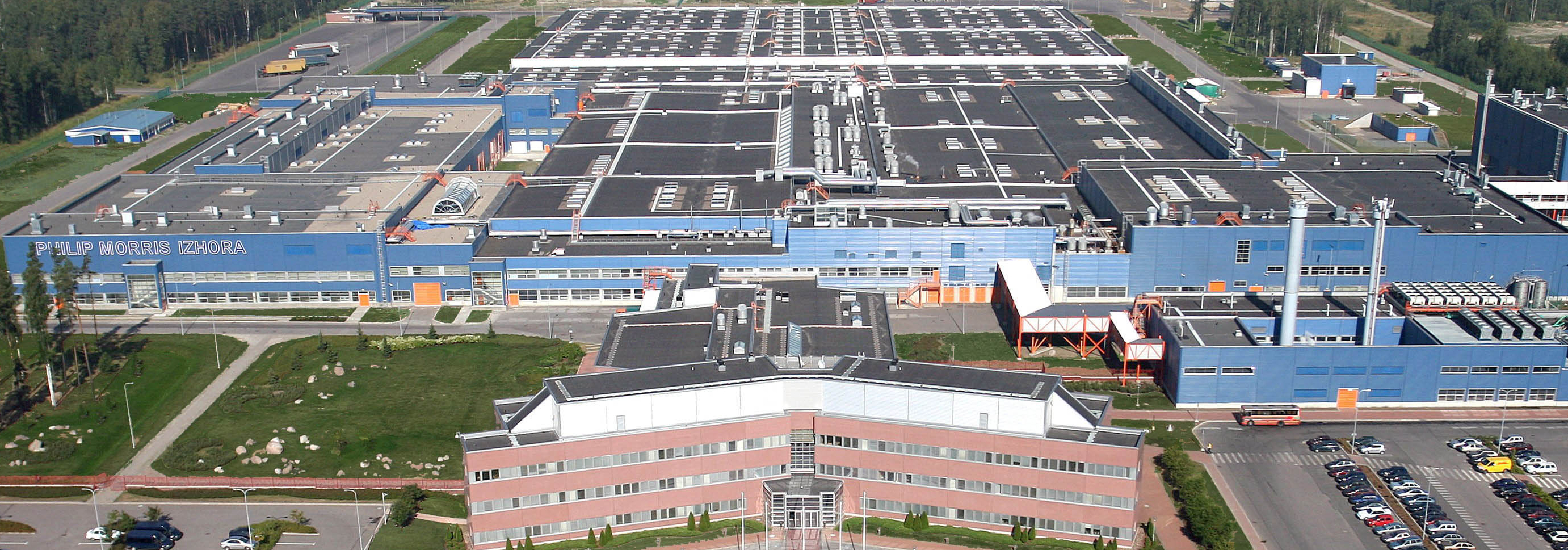 Philip Morris Izhora factory